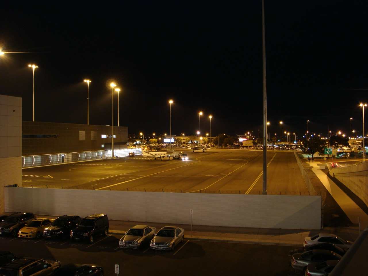 just a part of the small airport